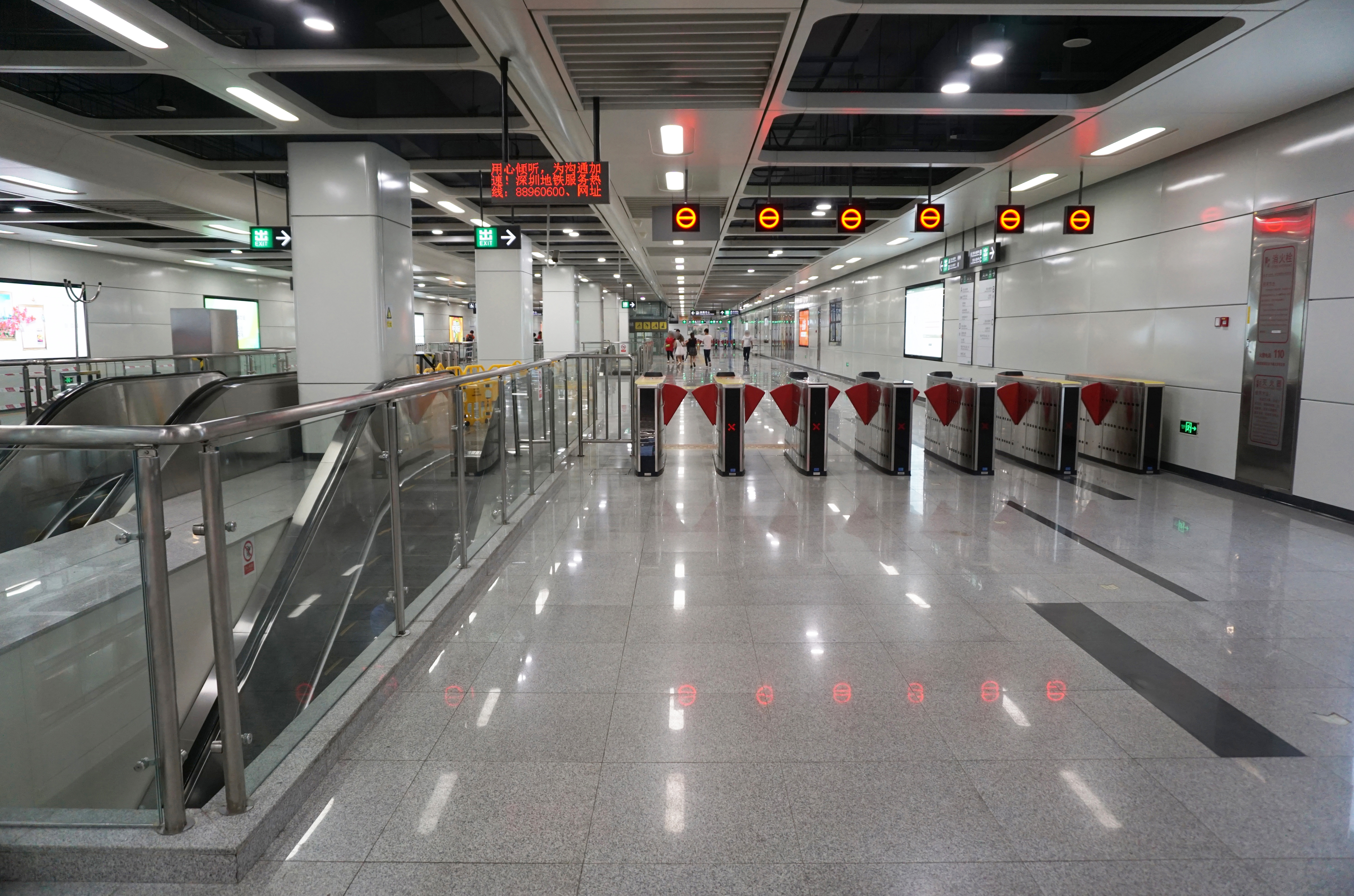 Houting Station in Shajing, Shenzhen.